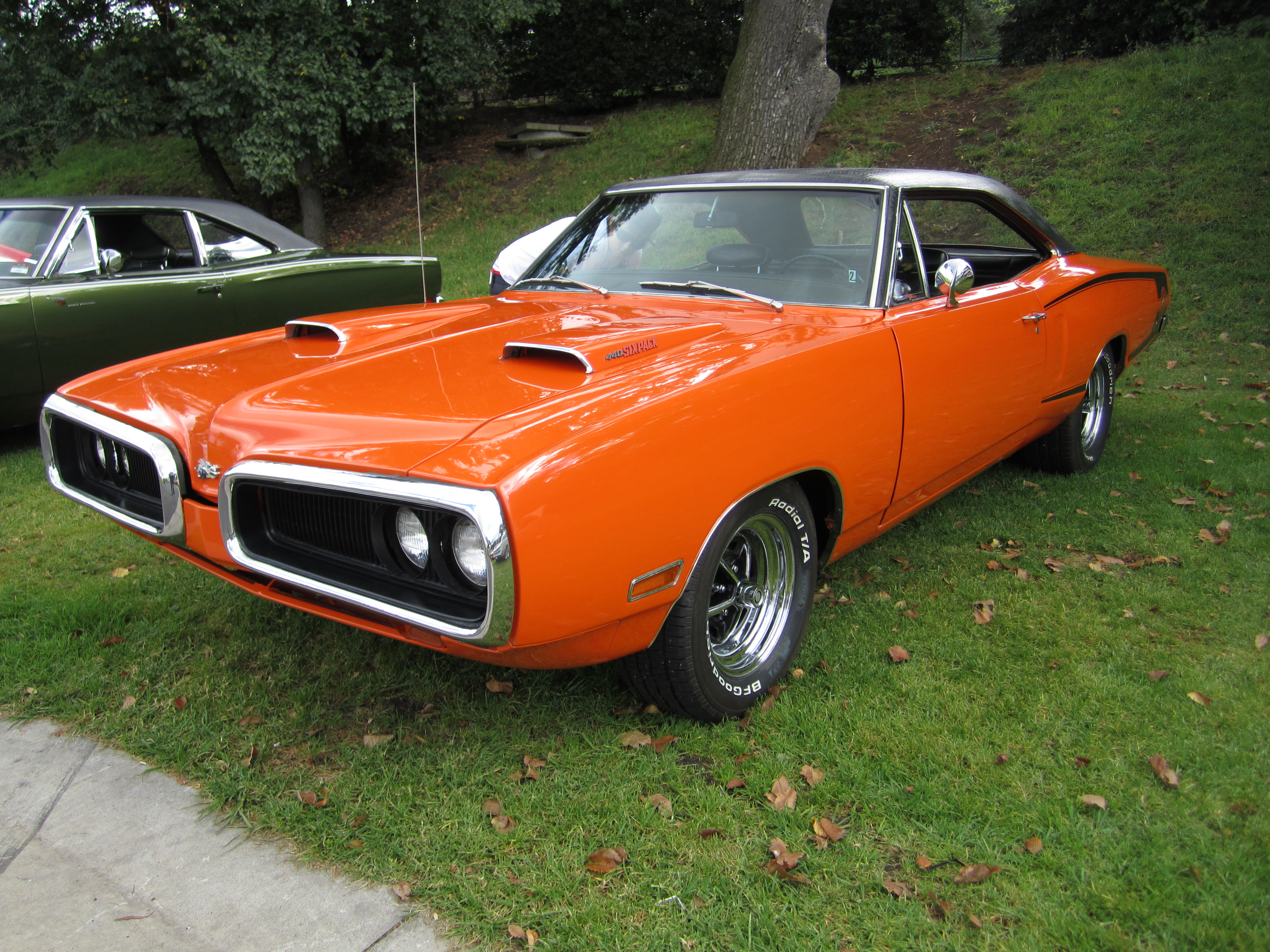 Superbees were made from 1968-71. Based on the Coronet but only in 2 door. aimed at the younger market; basic trim but big horsepower. Engines; 383,426 or 440 V8s